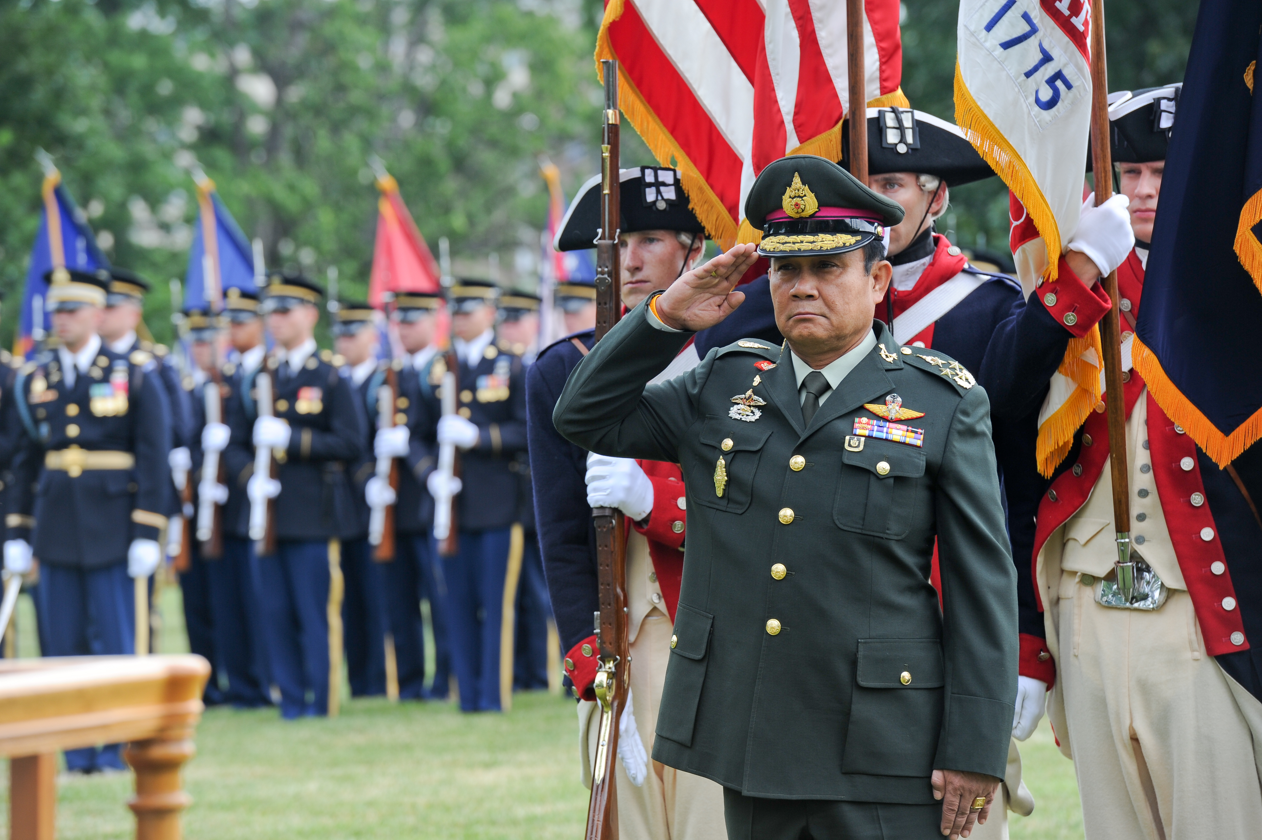 Gen. Prayut Chan-O-Cha, commander in chief of the Royal Thai Army, salutes during an Army full honor arrival ceremony hosted by Army Chief of Staff Gen. Raymond T. Odierno at Joint Base Myer-Henderson Hall's Whipple Field in Arlington, Va., June 6, 2013. (U.S. Army photo by Eboni Everson-Myart/Released)